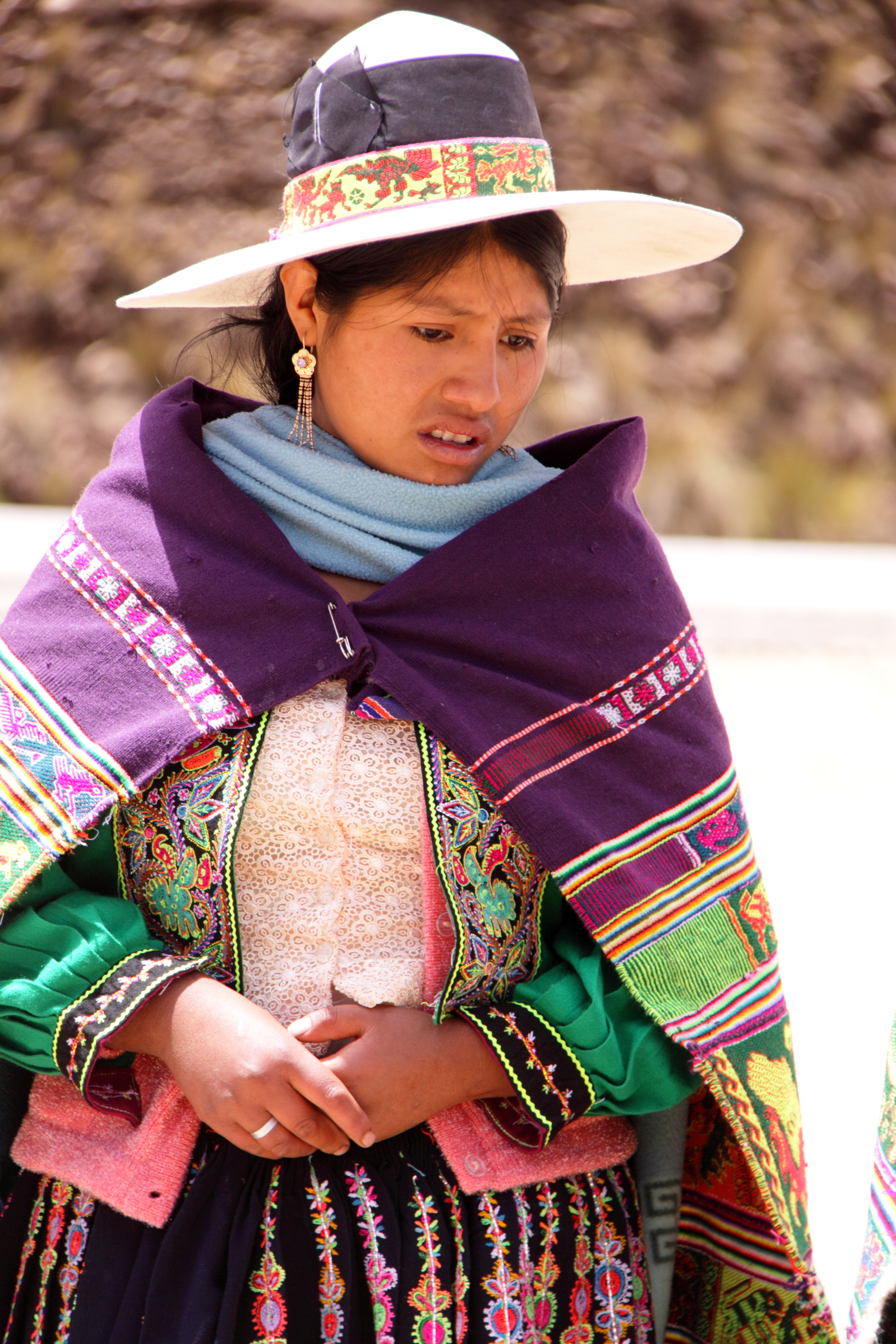 Bolivia, Pongo near Cochabamba, woman in traditional dress